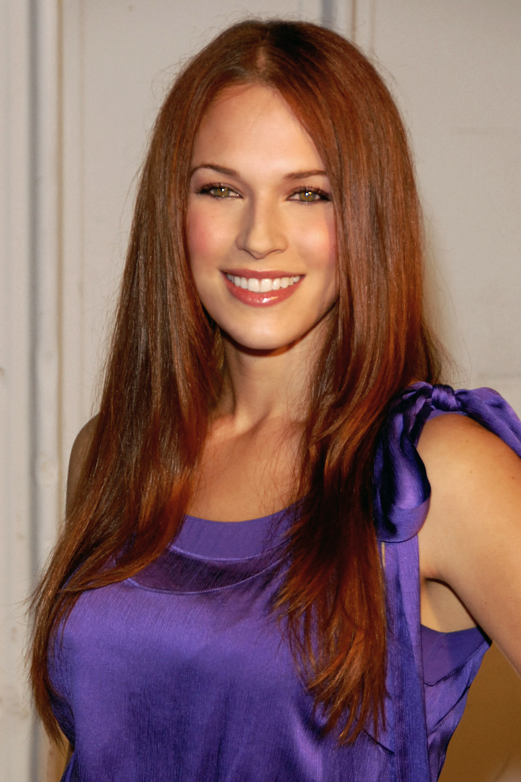 Amanda Righetti attending Maxim Magazine's 10th Annual Hot 100 Celebration, Santa Monica, CA on May 13, 2009 - Photo by Glenn Francis of